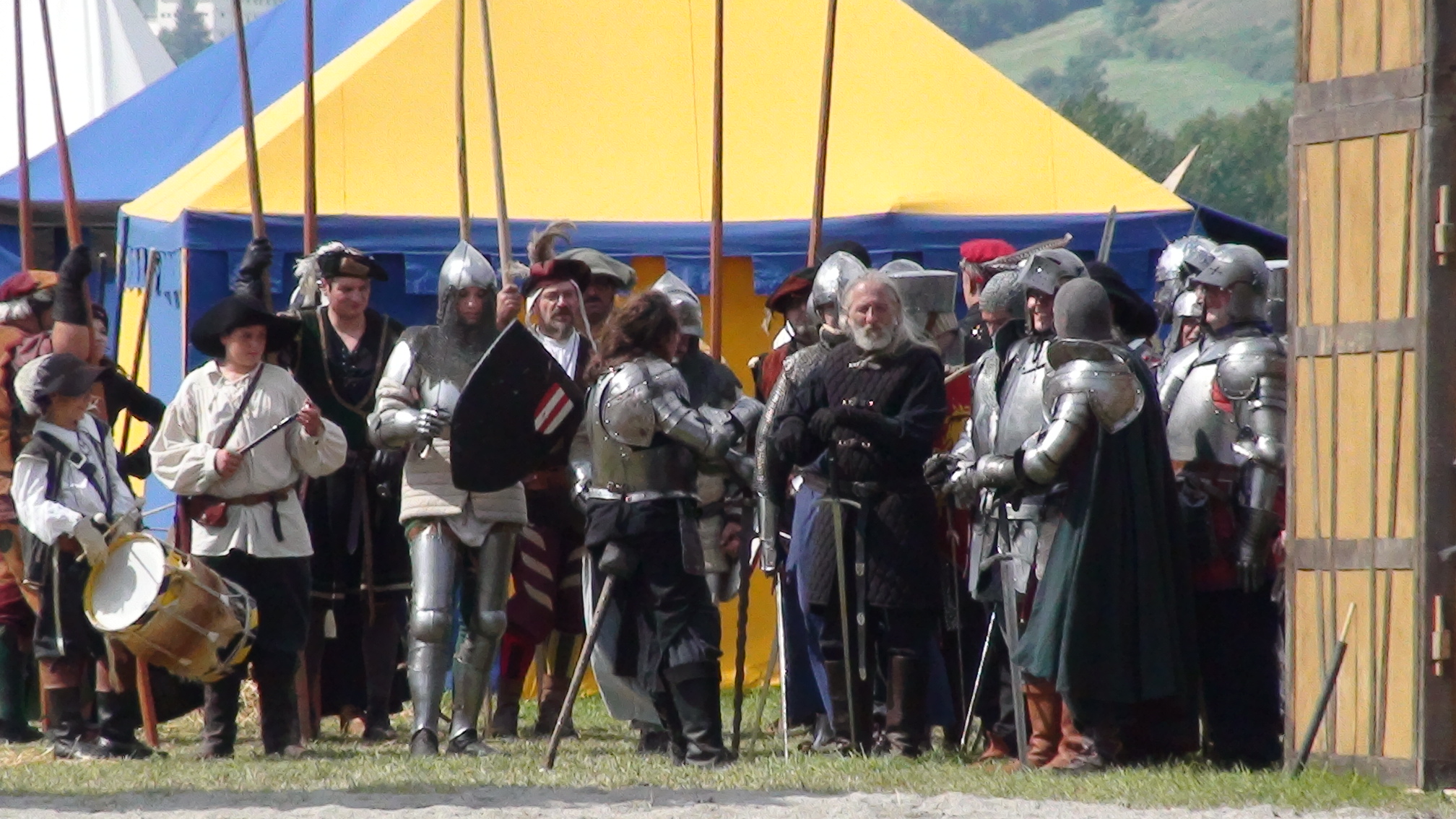 Medieval armours and soldiers at Schluderns Medieval games 2010